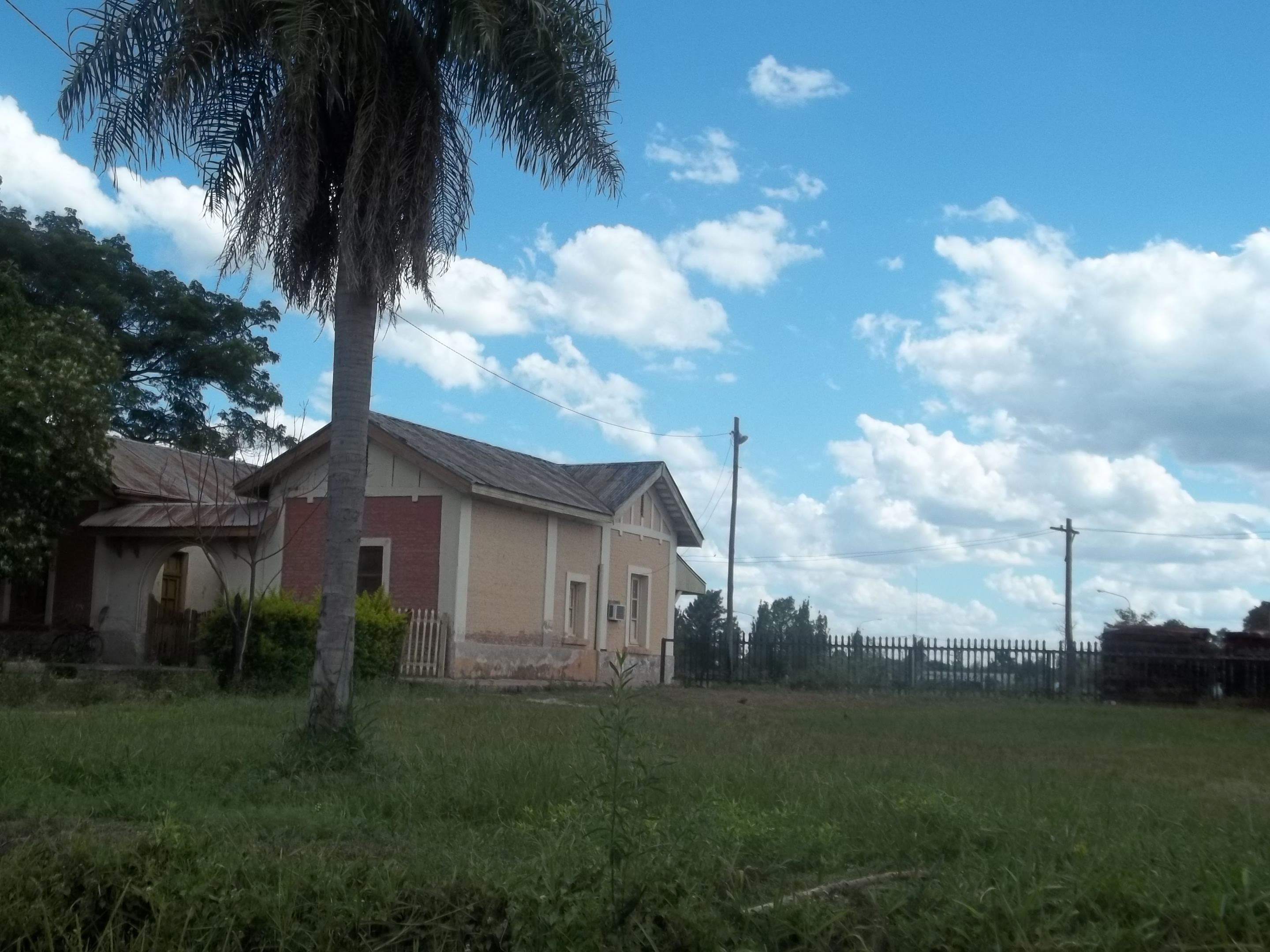 Train station in Presidencia de la Plaza, Chaco Province, Argentina.